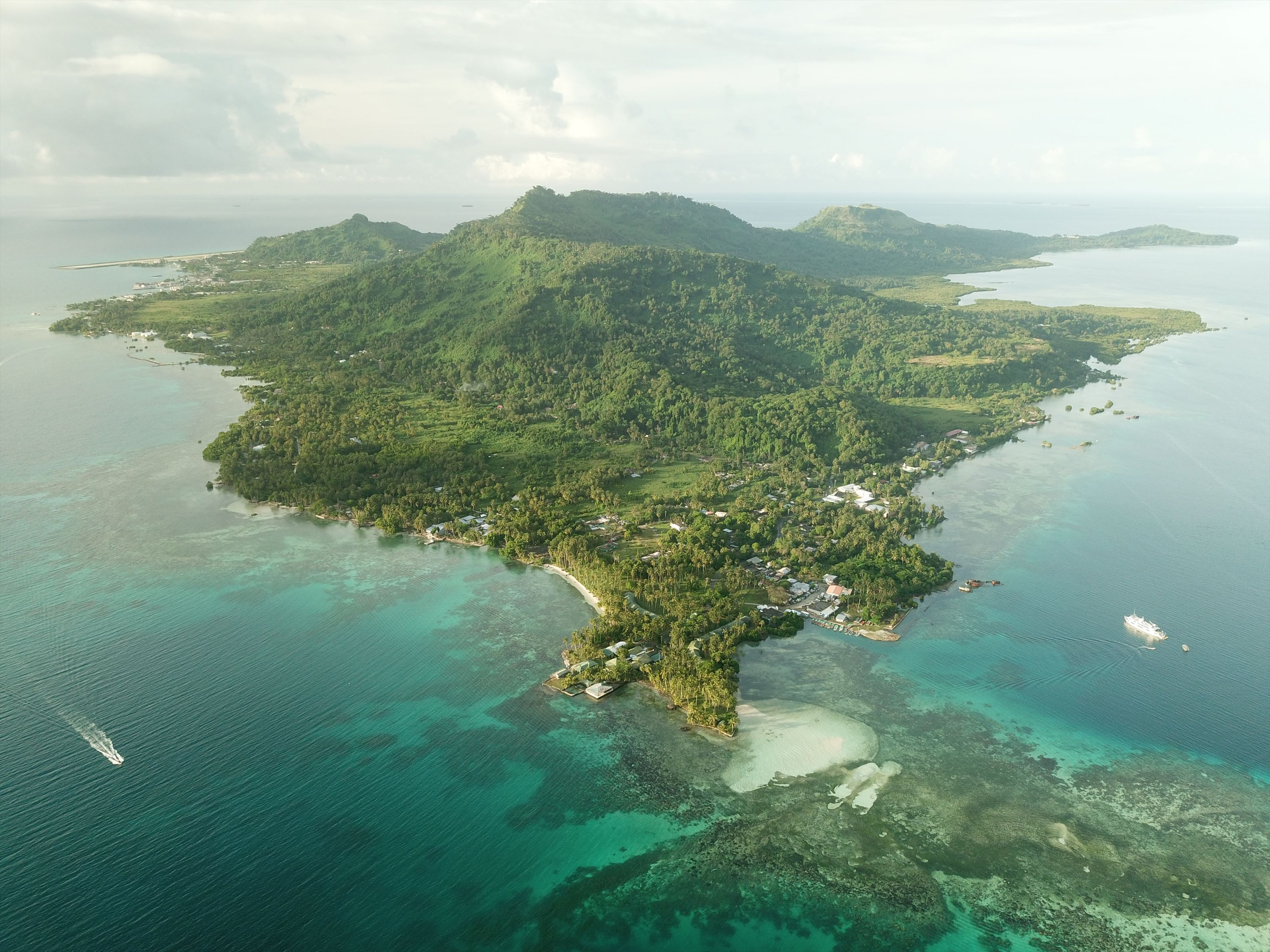 Weno island